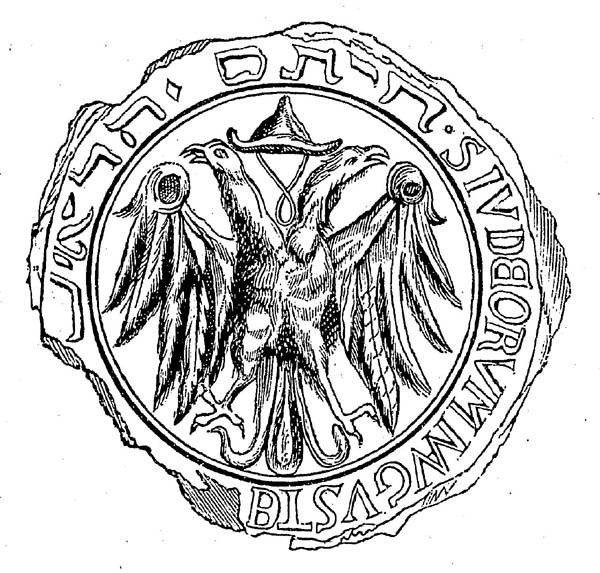 Seal of the jewish community of Augsburg, Germany in 1298. It showes the imperial eagle with the pointed hat that is commonly known as jewish hat.